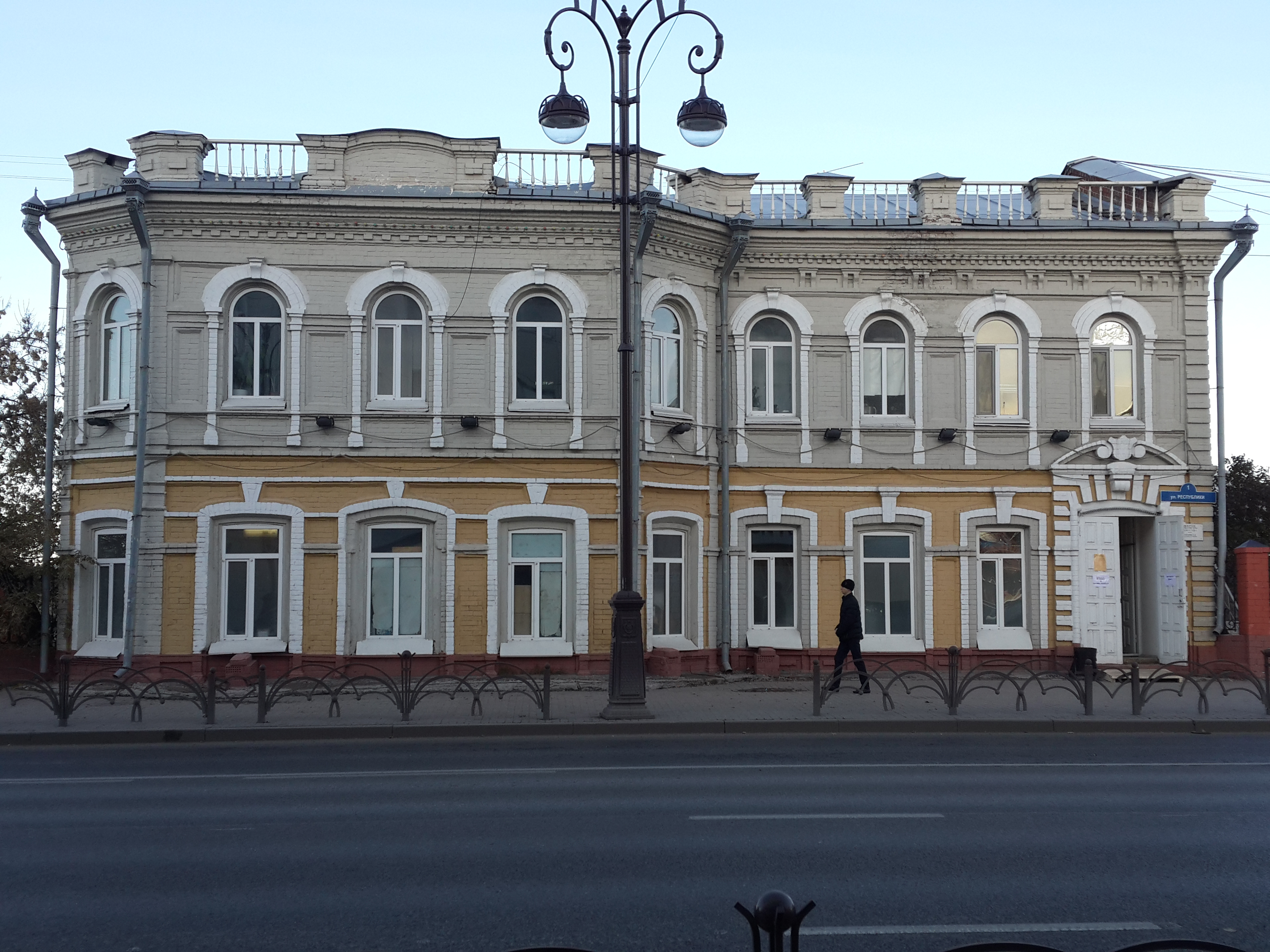 House Kolmogorovs Plishkina. Dwelling house (Tyumen region, Tyumen, Republic Street, 1)